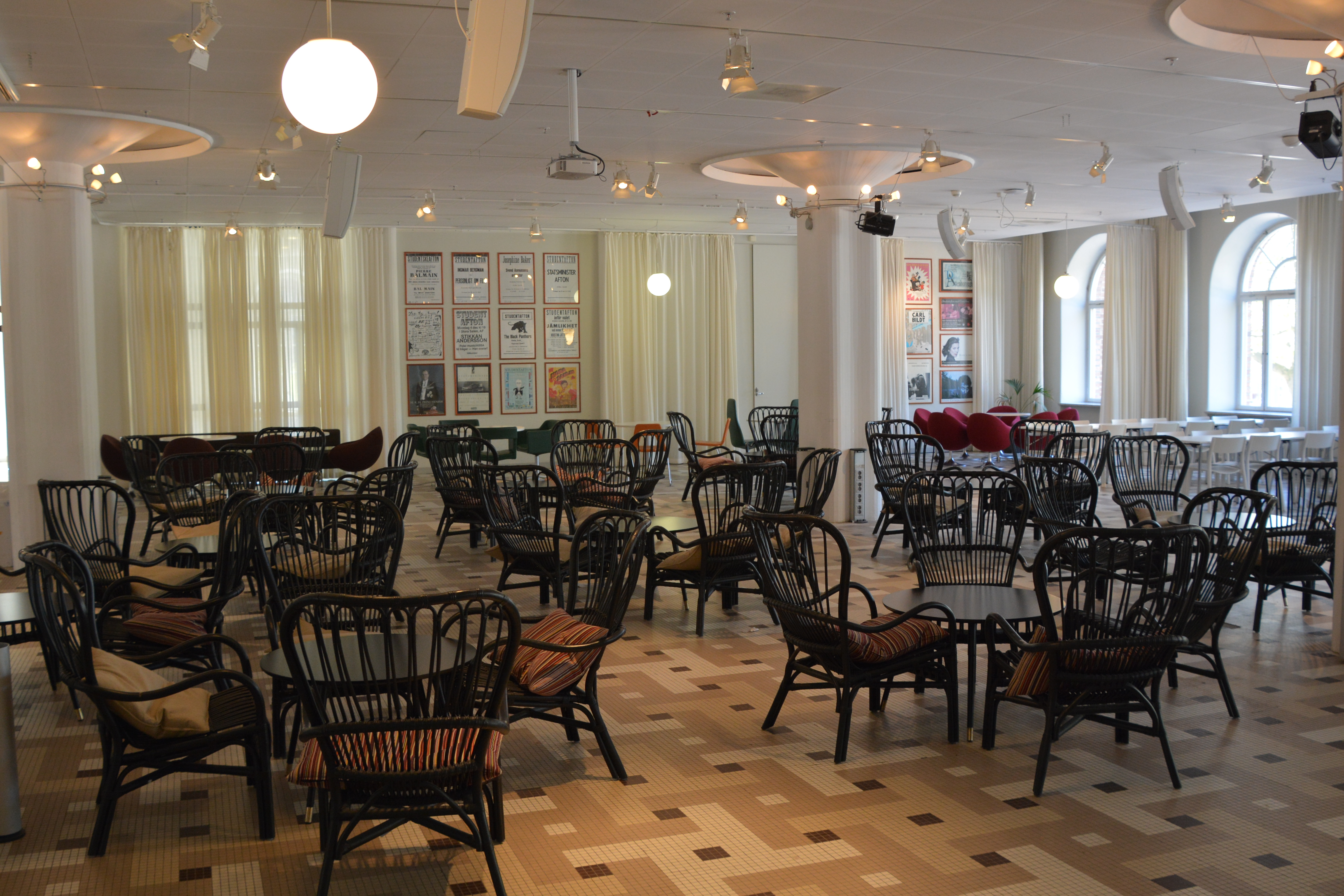 Athen maj 2017